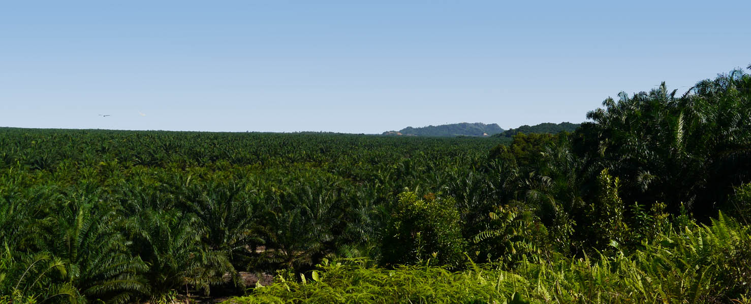 Oil Palms grove. Sarawak, Eastern Malaysia.